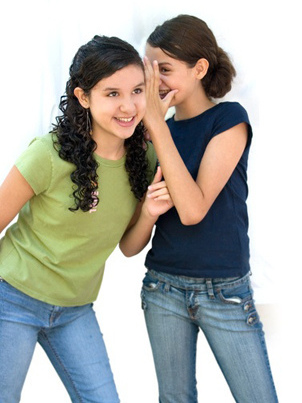 Two young girls laughing behind another girls back.